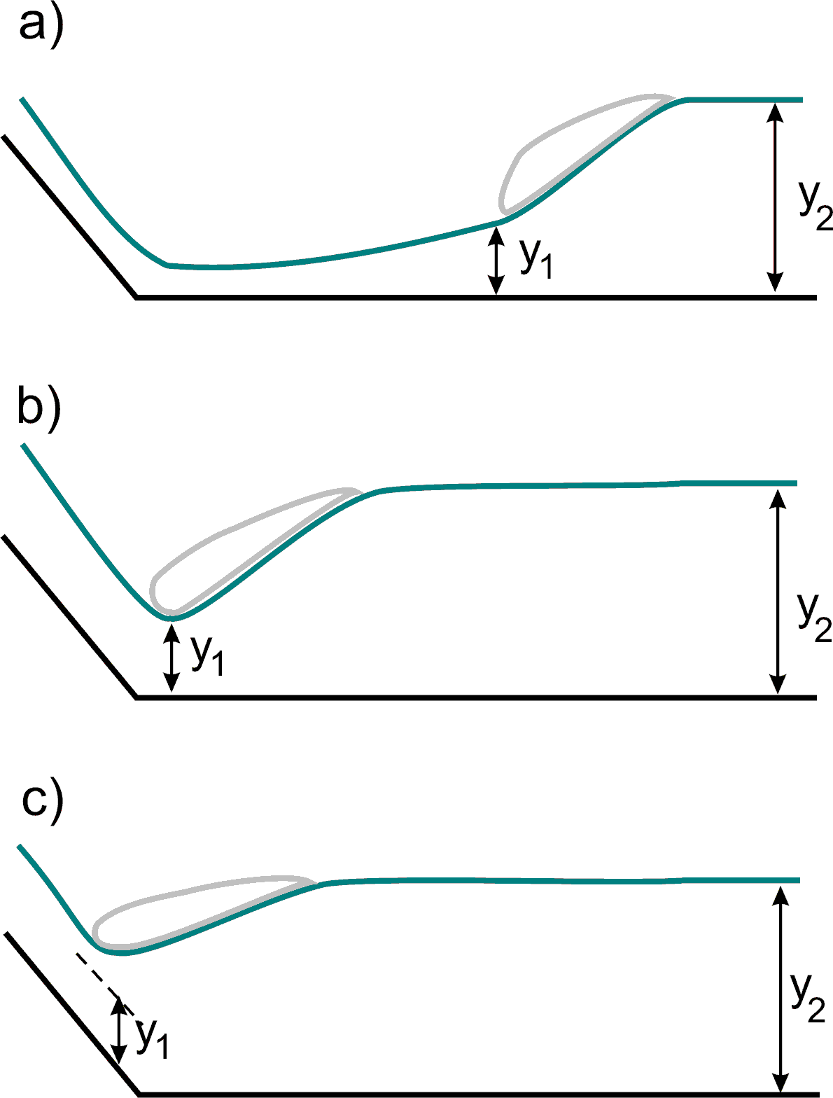 hydraulic jump - position